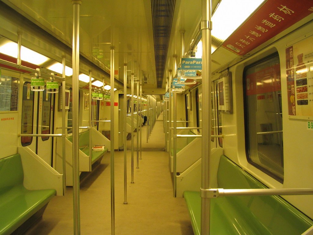 Interior of Shmetro Line 2 Train